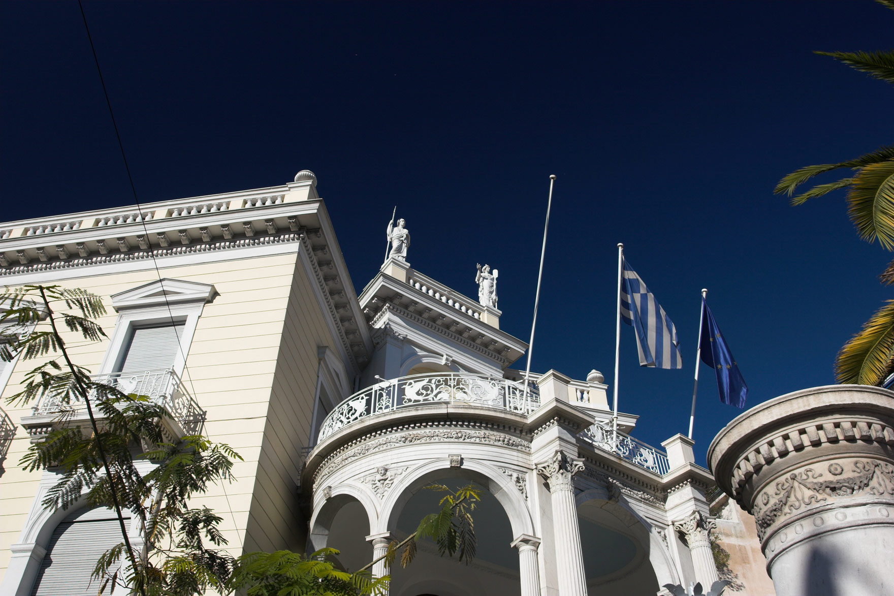 Greece, a modern state with ancient traditions. Photo by ThermosLovrdes *